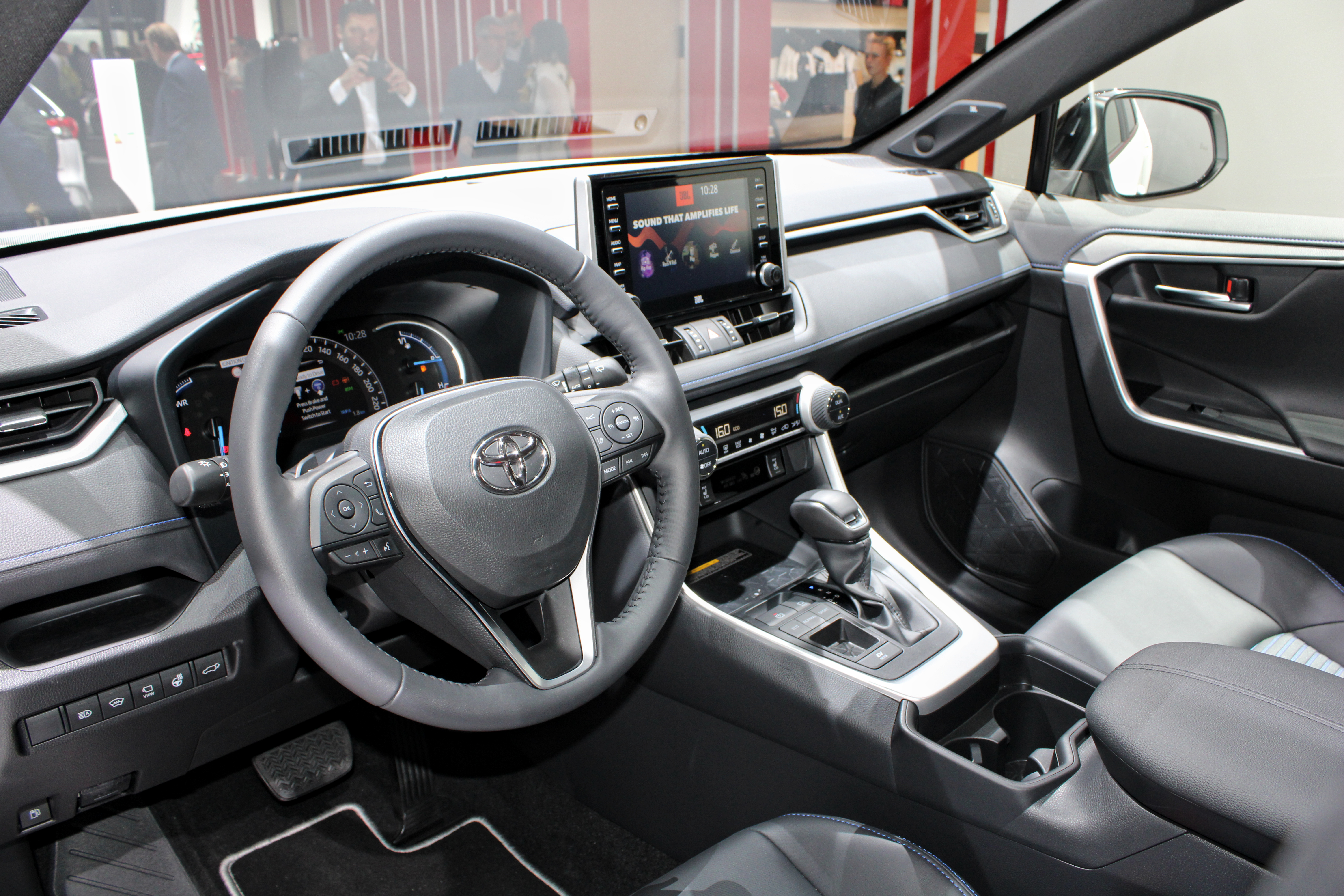 Toyota RAV4 Hybrid at Paris Motor Show 2018